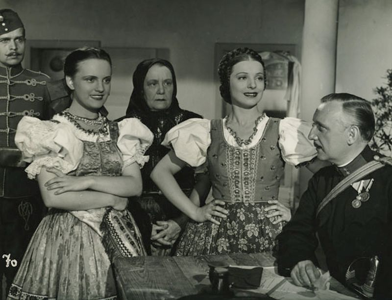 Scene from the Hungarian movie titled Piros bugyelláris (The Red Wallet) (released in 1938)